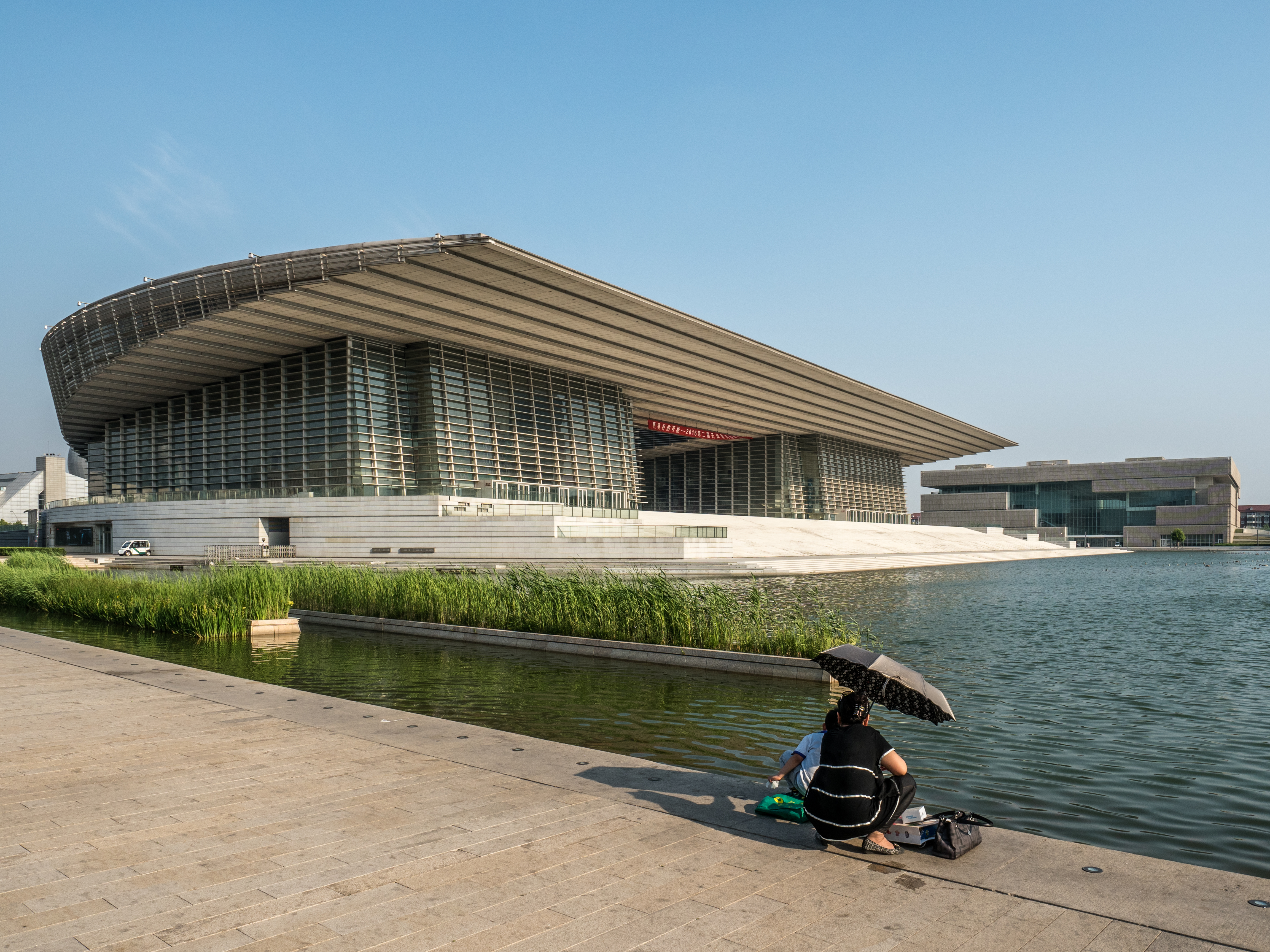 Concert hall in Tianjin